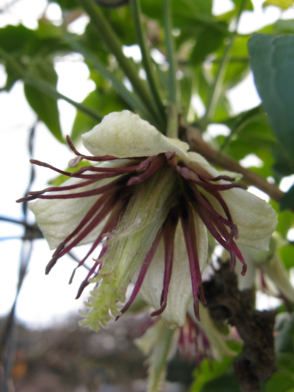 Clematis napaulensis, cultivated plant